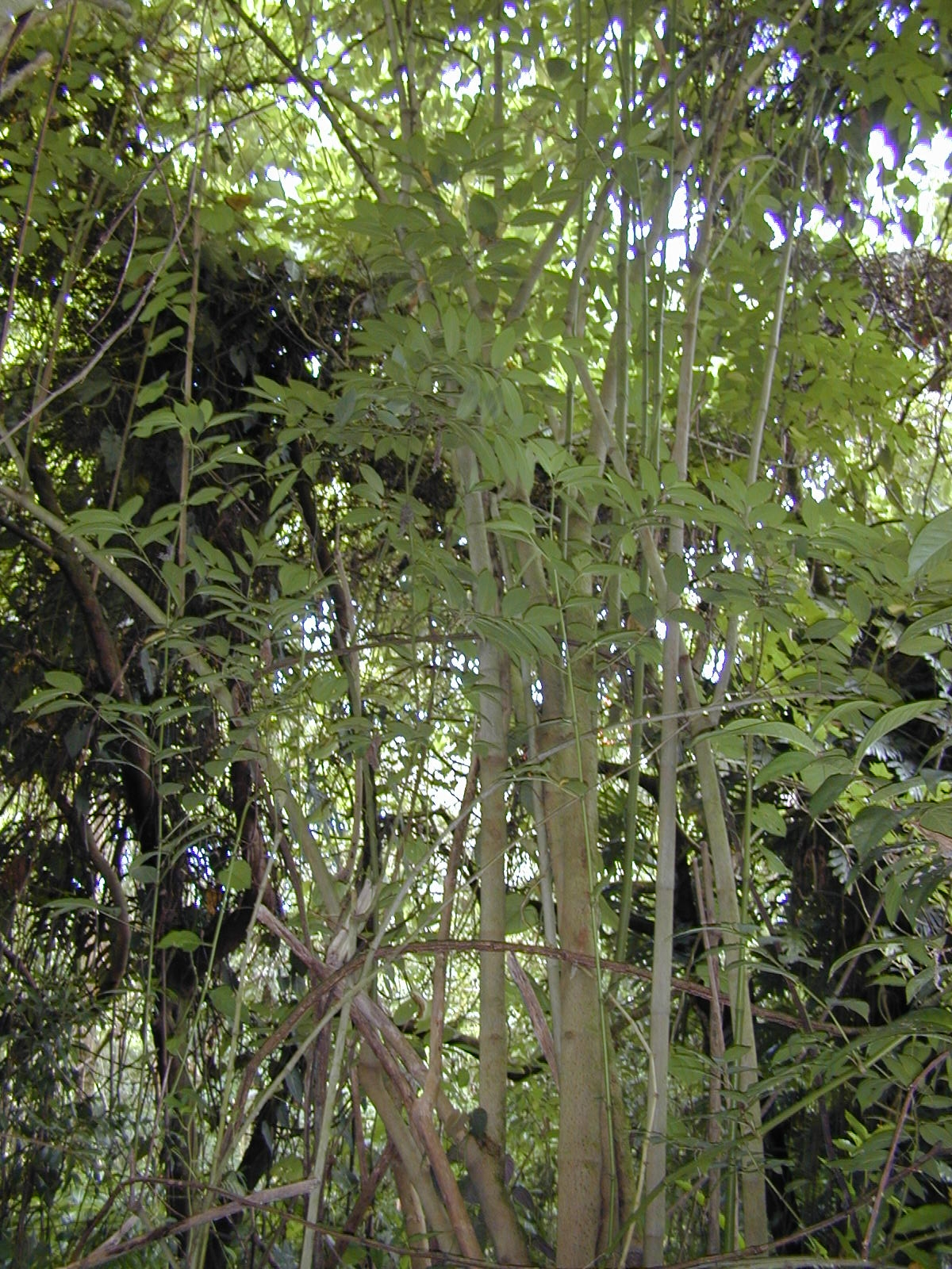 Piper aduncum (tall trees). Location: Maui, Nahiku